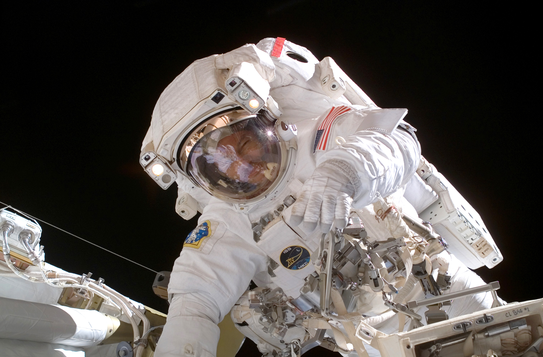 Astronaut Michael E. Lopez-Alegria, Expedition 14 commander and NASA space station science officer, participates in the final of three sessions of extravehicular activity (EVA) in nine days, as construction continues on the International Space Station.